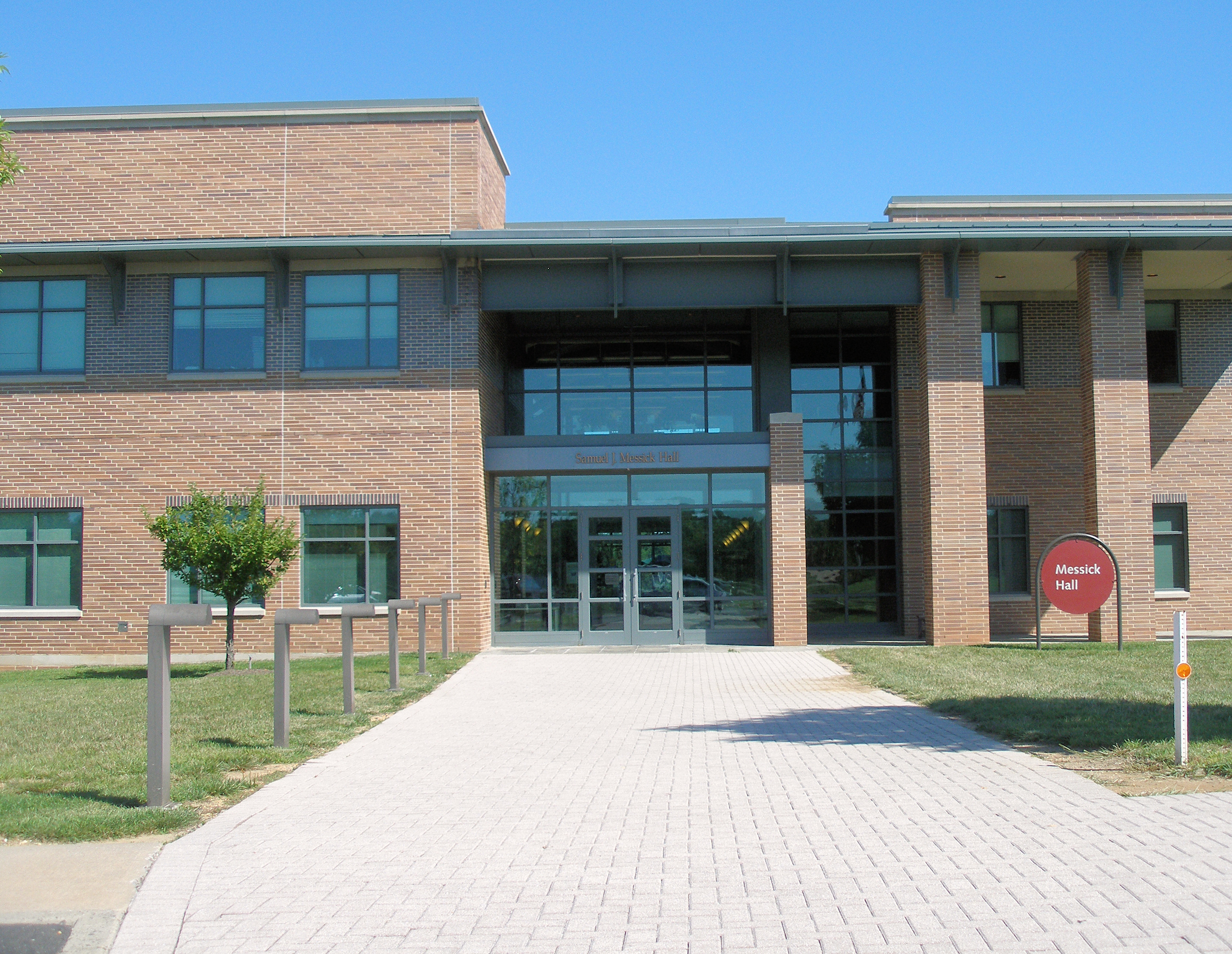 Messick Hall, one of the many buildings at the headquarters campus of the Educational Testing Service in Lawrence Township. It is named for Samuel Messick.